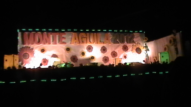 Monte Aguila Party